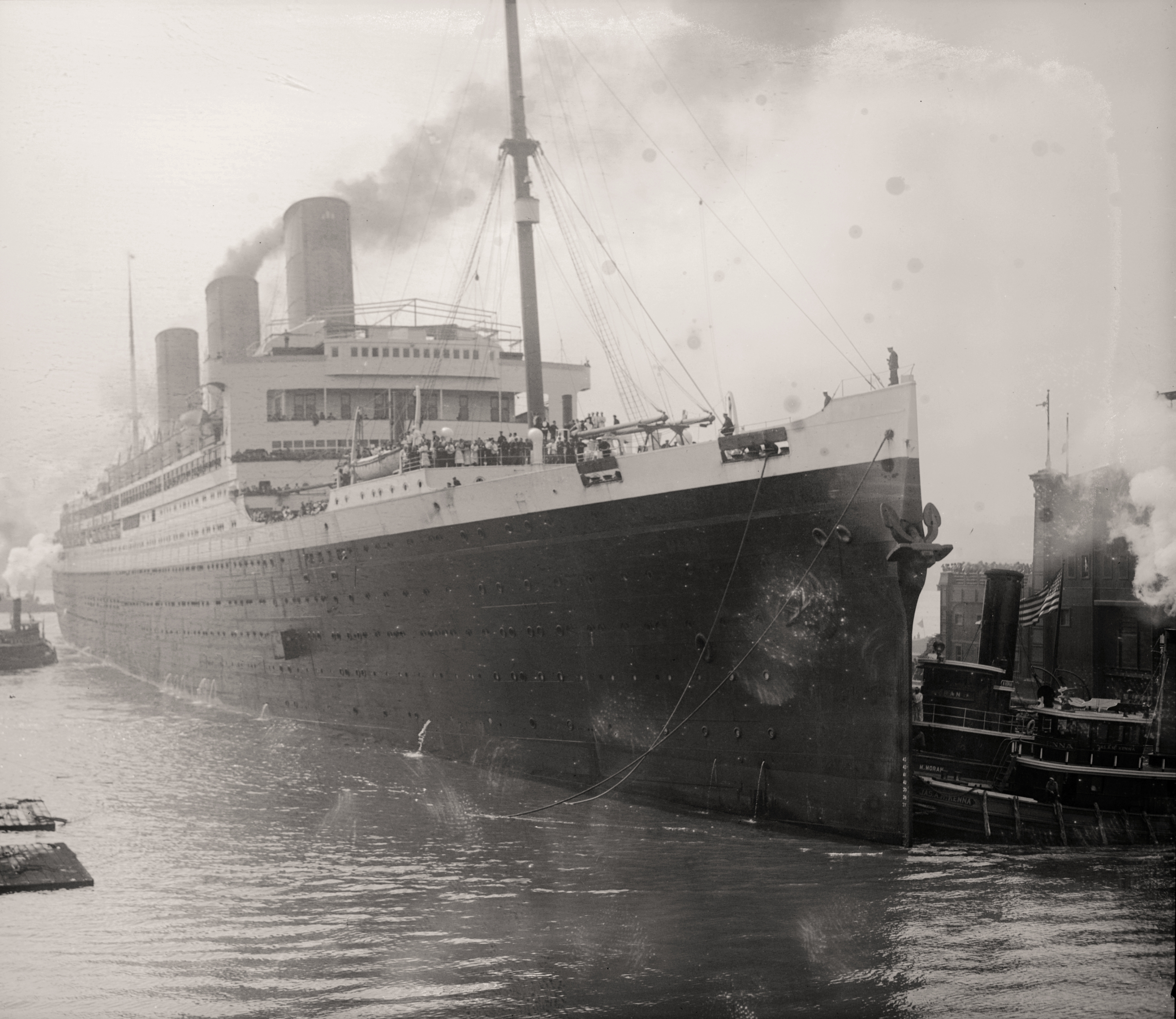 RMS Majestic at New York, date unknown